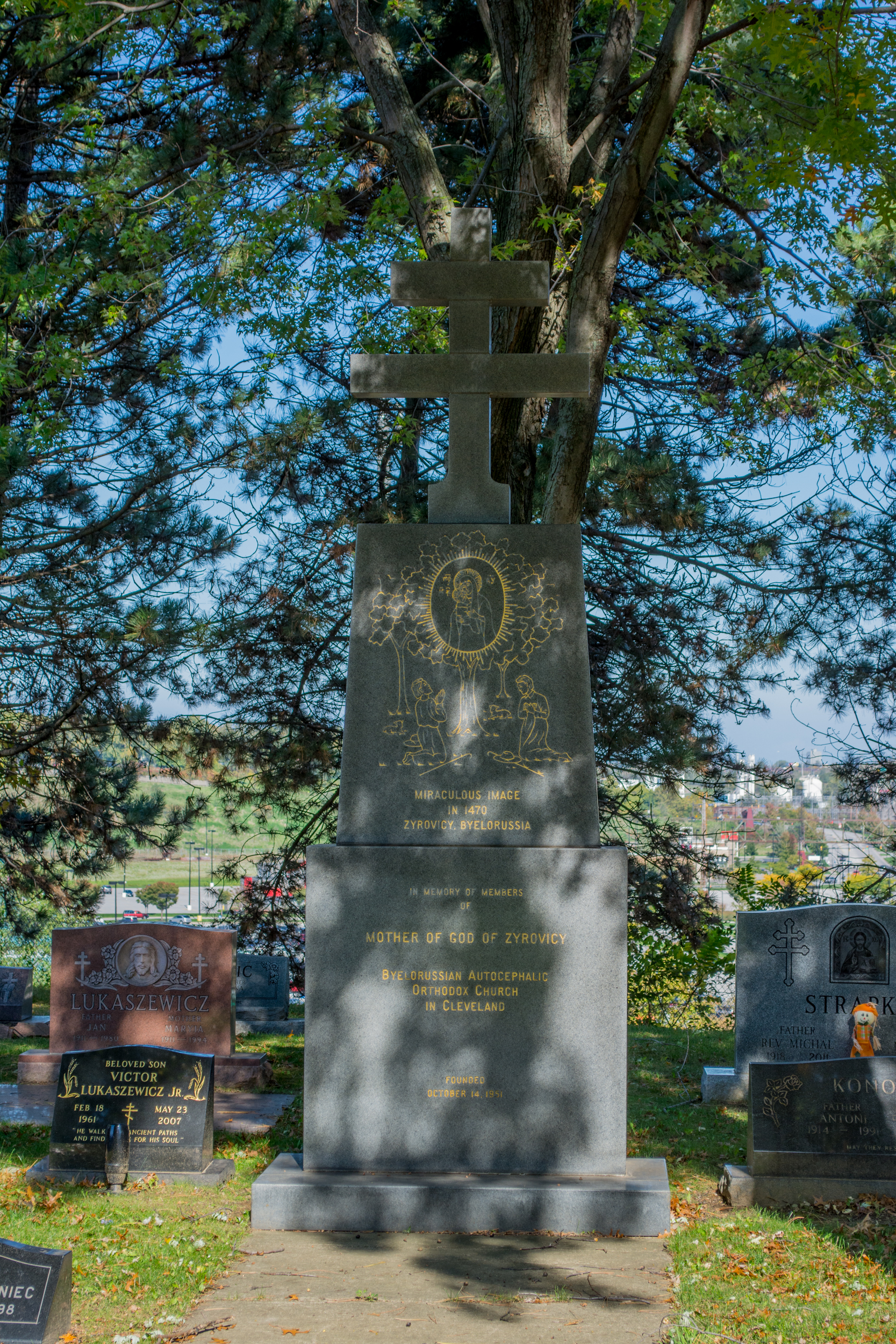 Byelorussian Orthodox Church monument in Section VI of Riverside Cemetery in Cleveland, Ohio. The Coptic and Byelorussian churches both have their own sections in this cemetery, as do the Estonian and Latvian communities.